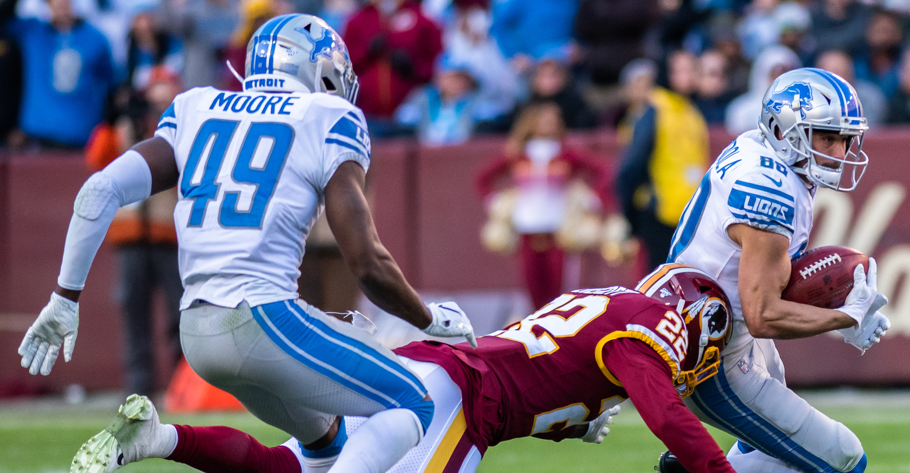 In 2019